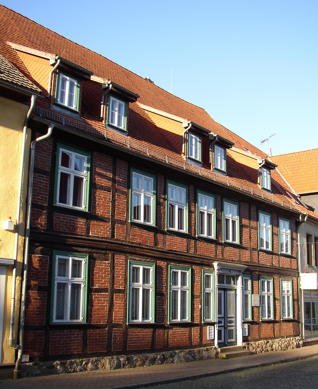 Birth house of Helmuth Karl Bernhard von Moltke in Parchim in Mecklenburg-Western Pomerania, Germany